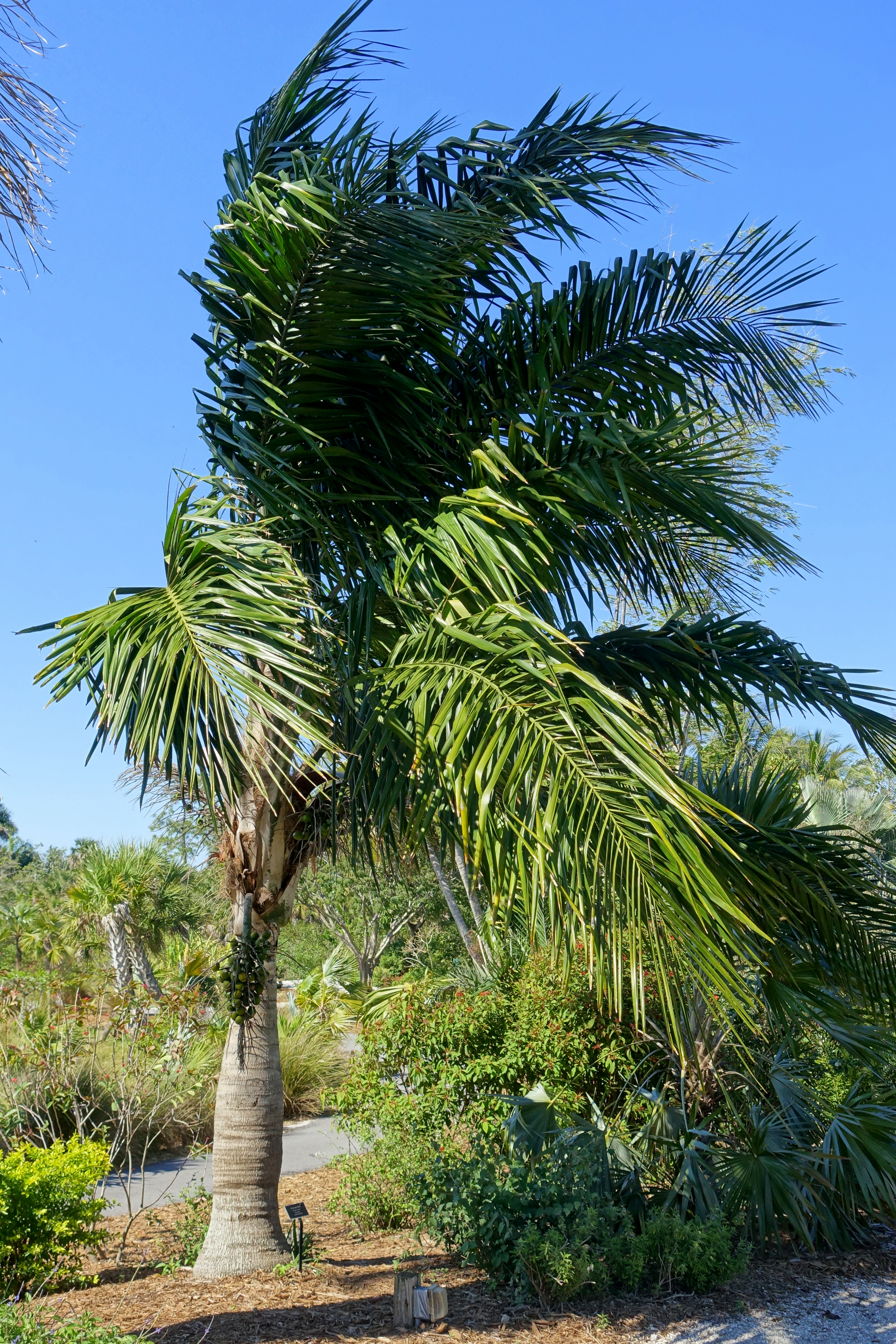 Botanical specimen in the Naples Botanical Garden - Naples, Florida, USA